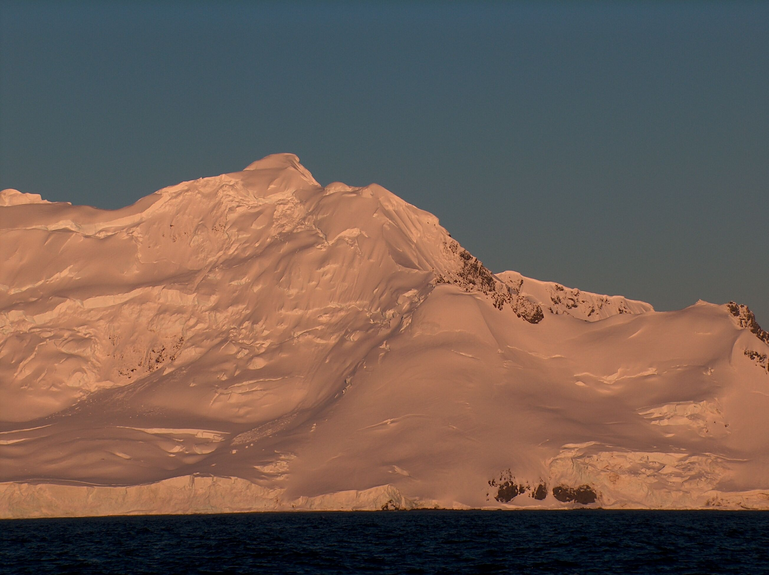 Elena Peak in Tangra Mointains on Livingston Island, Antarctica, from Bransfield Strait.